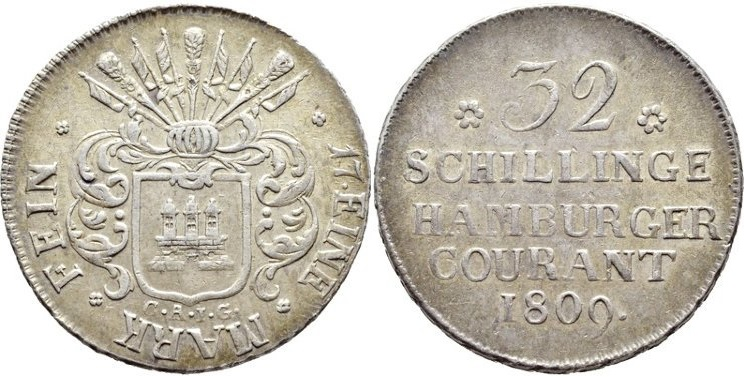 German States, Hamburg. AR 32 Schilling [1 Thaler] (33mm, 14.16 g). Dated 1809. Helmeted city-arms with flags above Value and date.